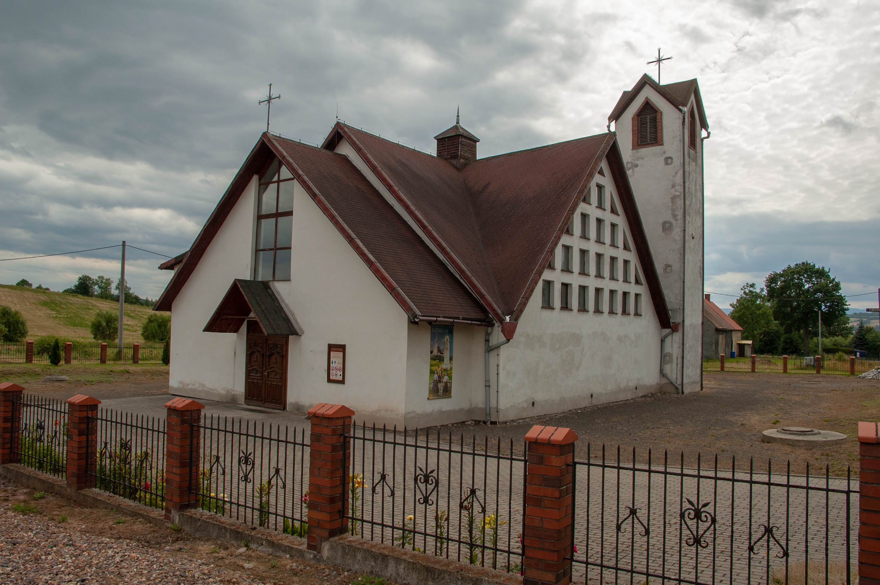 This photograph was created as a part of Wikiexpedition Lower Silesia, a project supported by Wikimedia Poland grant.